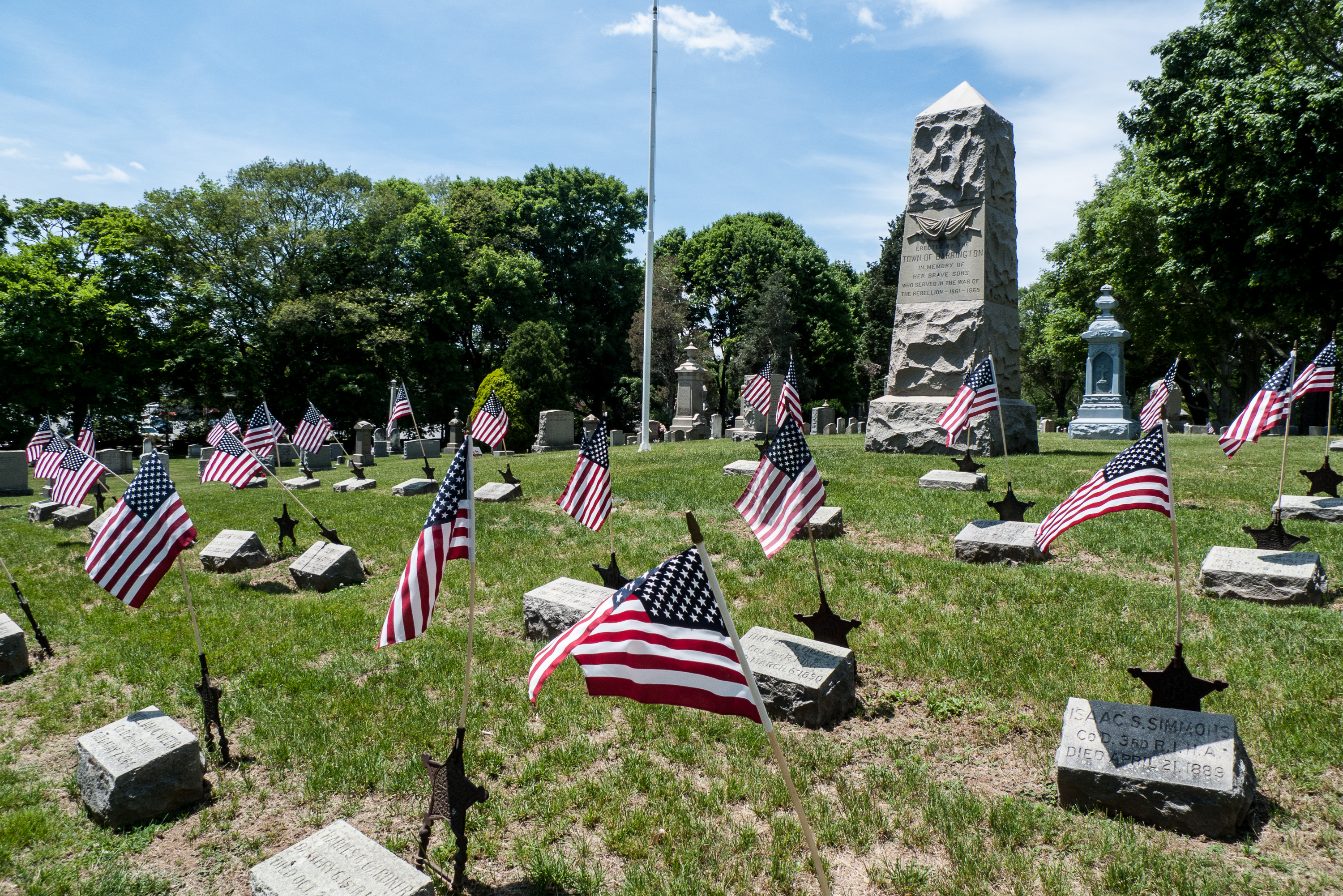 Civil War memorial at Princes Hill Burial Ground, Barrington Rhode Island